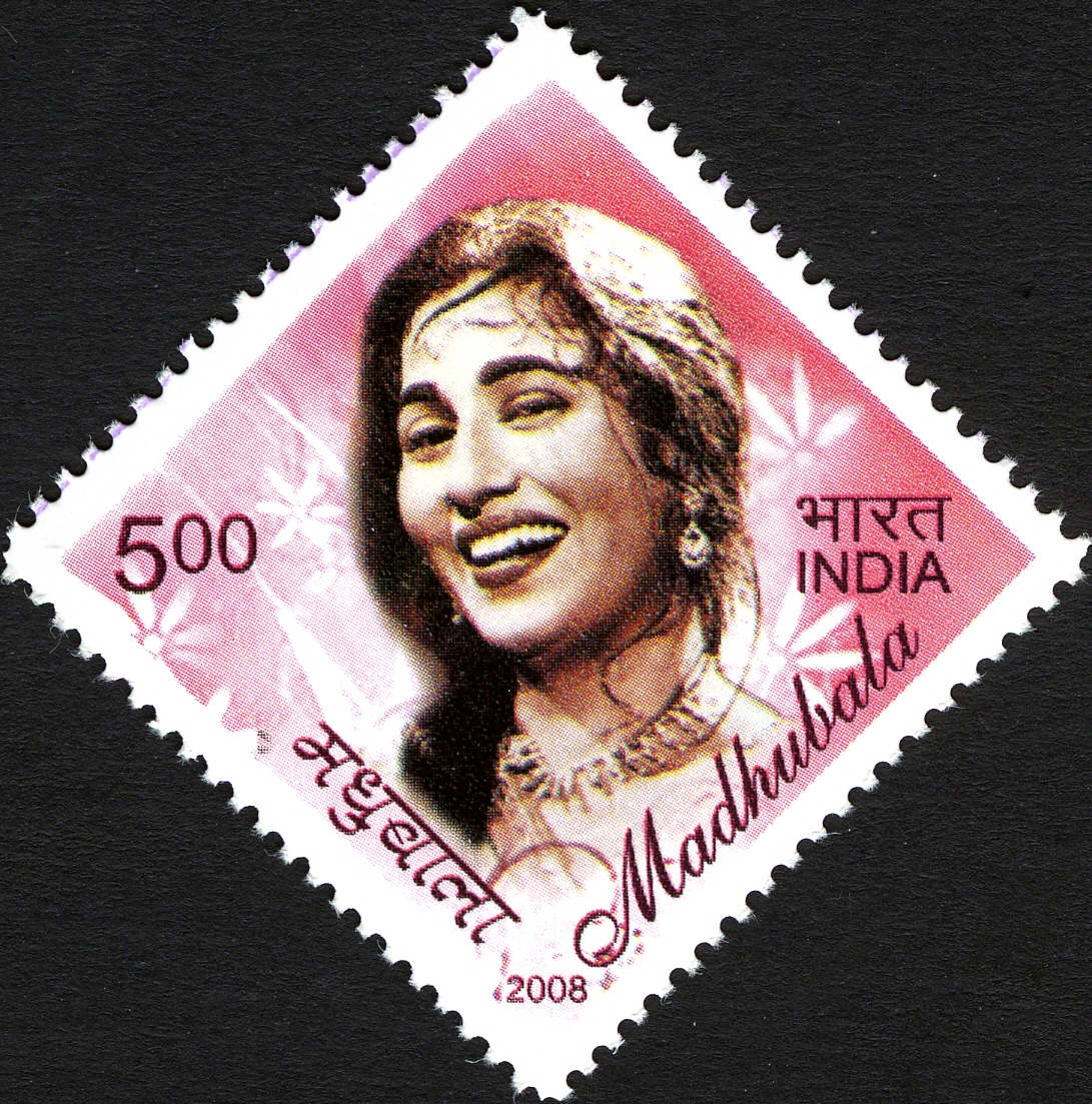 Theatre & Cinema (Films & film stars) Category:Madhubala Category:2008 stamps of India